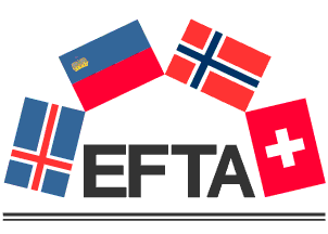 Flag of European Free Trade Association